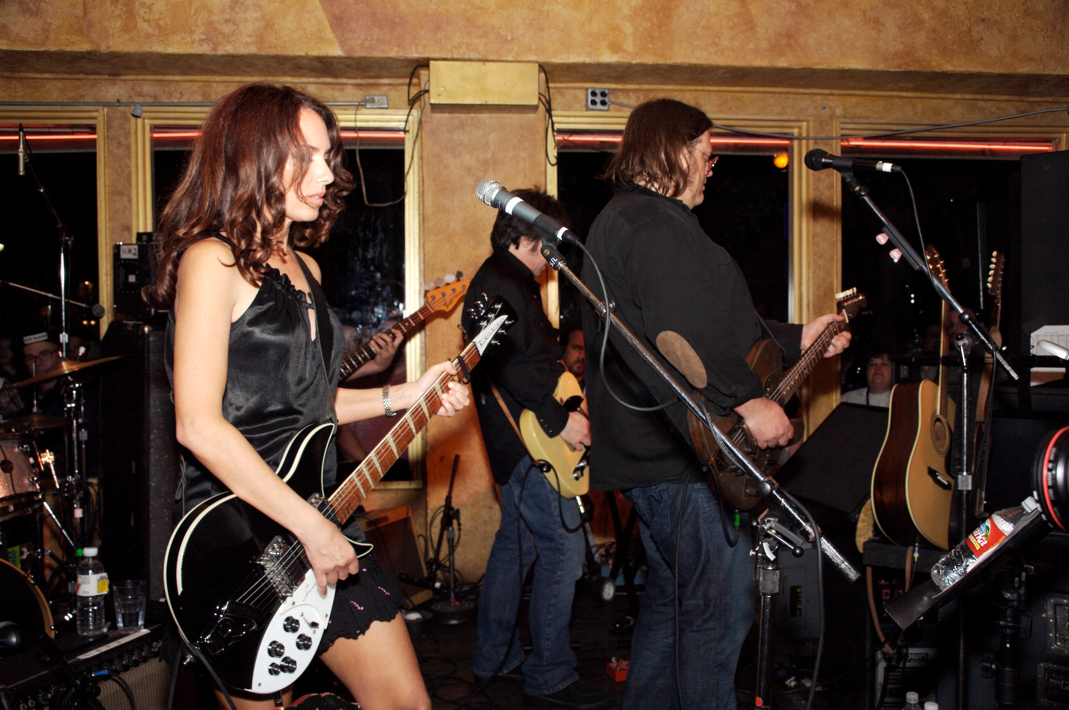 a packed show at the drink